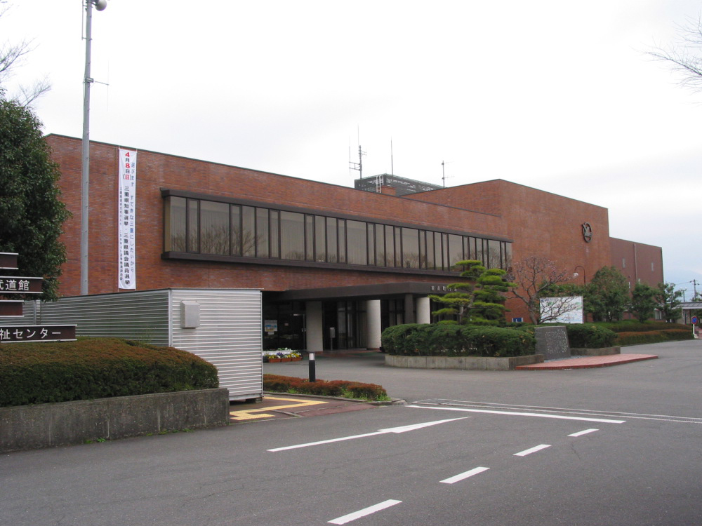 Toin townhall 東員町役場 三重県員弁郡東員町山田で撮影